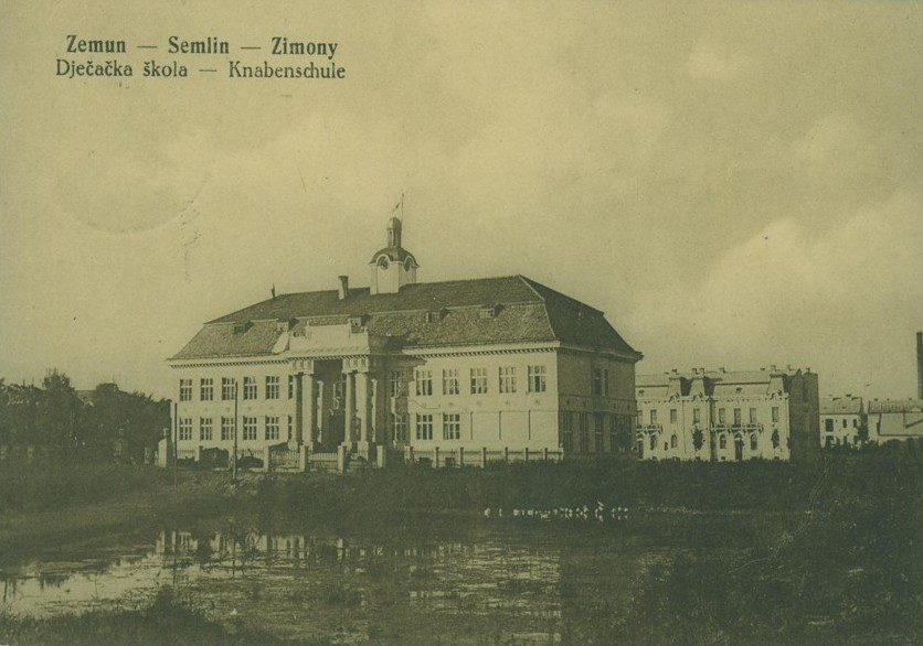 Boys school in Zemun